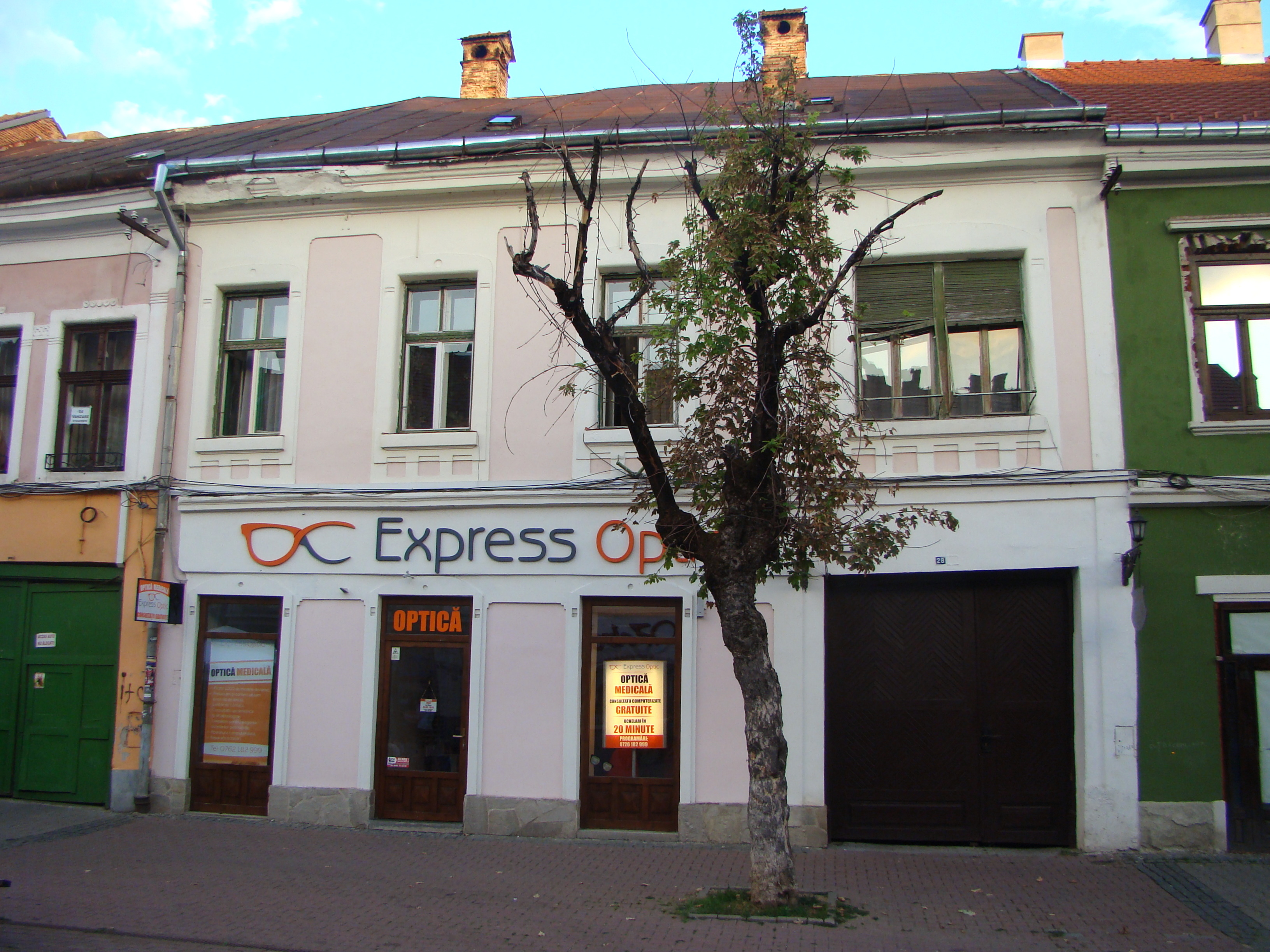 House, historic monument, in Bistrița, Liviu Rebreanu street 28